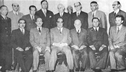 second cabinet of Dr Mossadegh